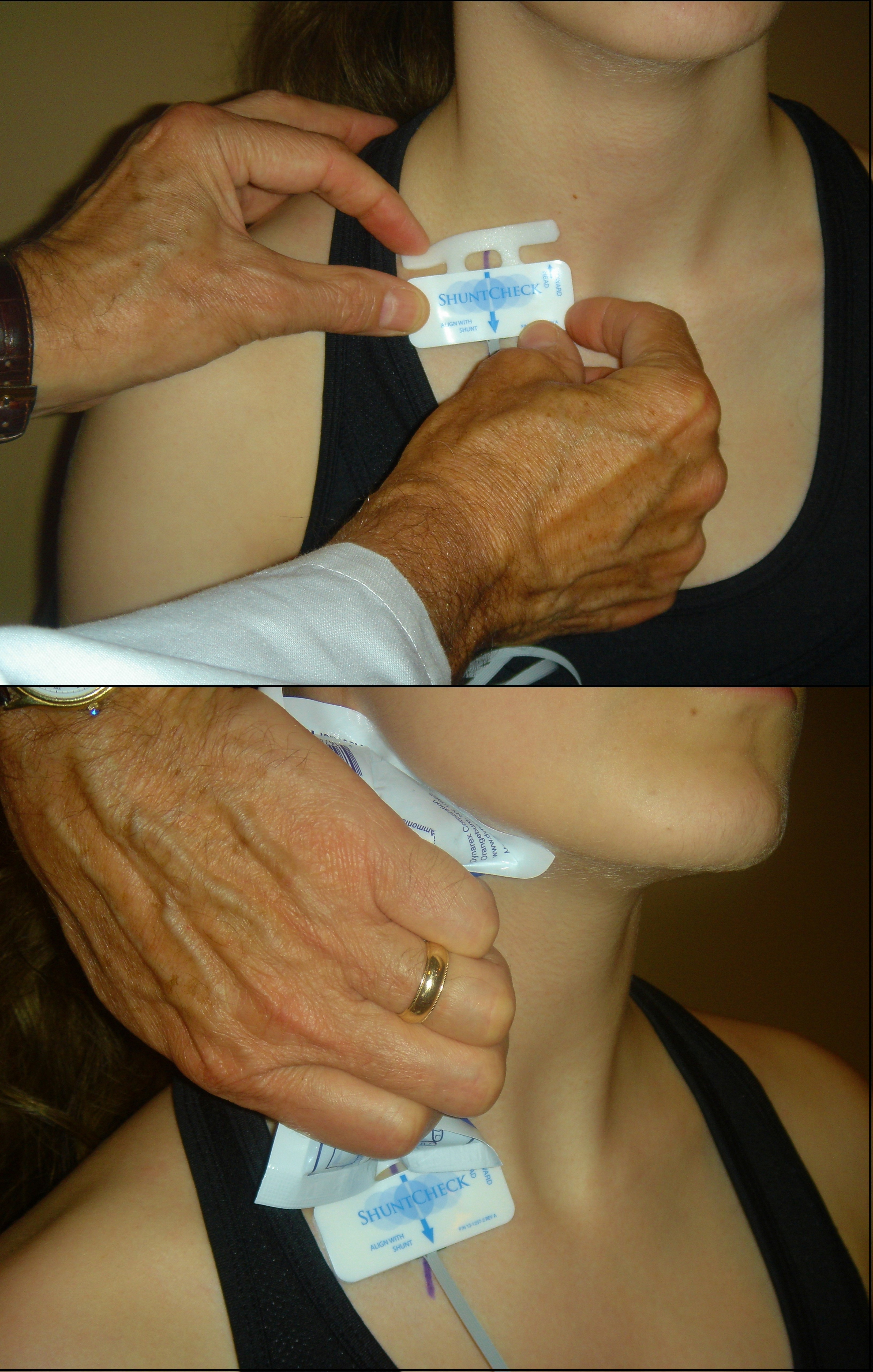 SCIII 4 PlaceTS and SCIII 12 PlaceIce